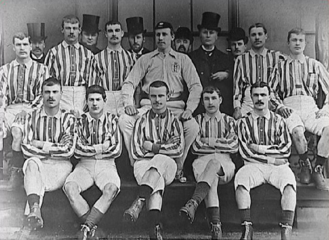 West Bromwich Albion F.C., team lineup of 1888.